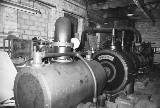 Steam engine at Craven Mills Cole, Marchent & Morley horizontal tandem compound engine built 1914. The air pump and jet condenser are nearest with the LP cylinder beyond. It is fitted with Morley's patent piston drop valves. The engine's future must now be in grave doubt as work has started on conversion to dwellings. The engine house had all the windows sealed up and was always very gloomy.